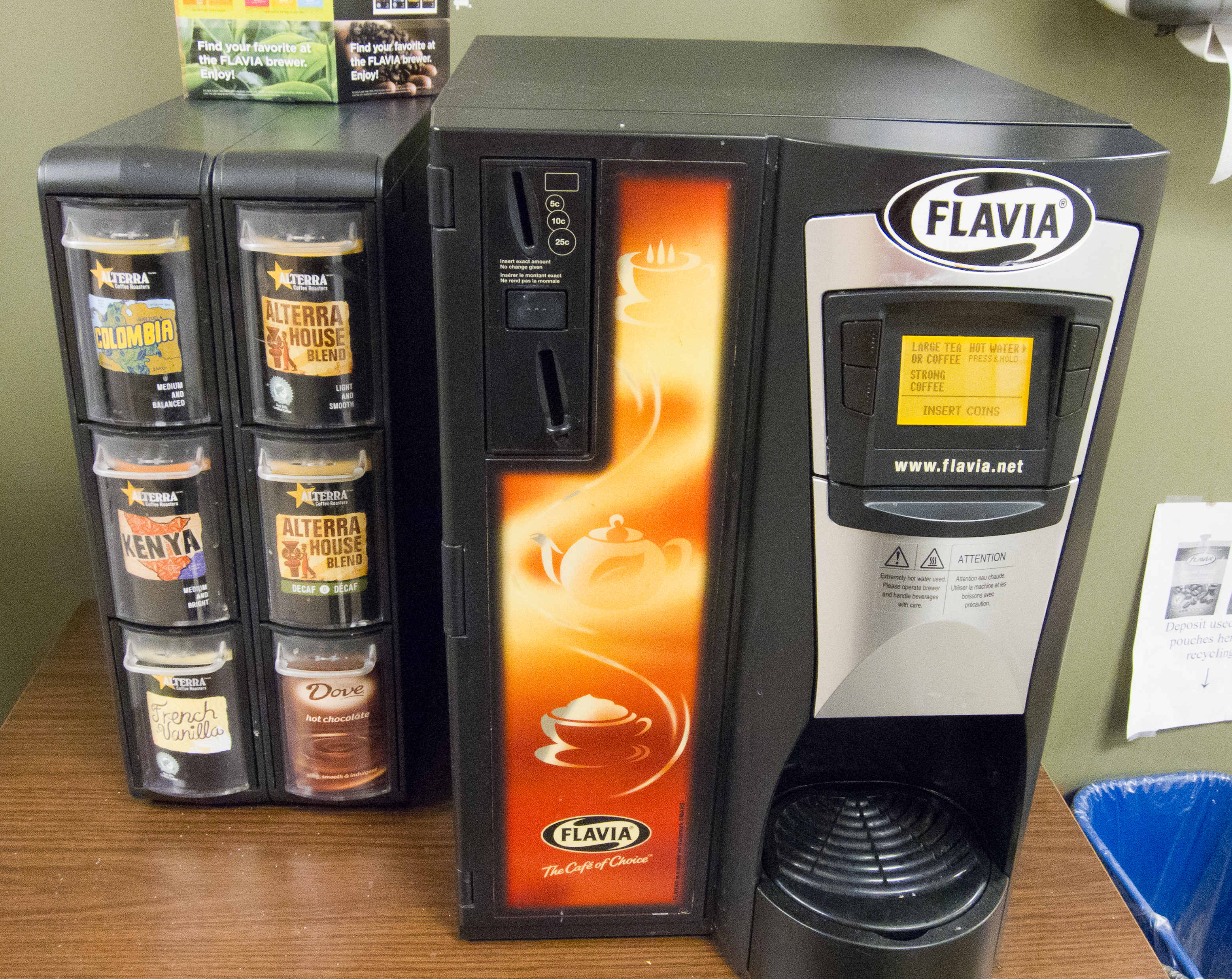 Flavia-brand single-serving dispensing machine with drink pouches to the left